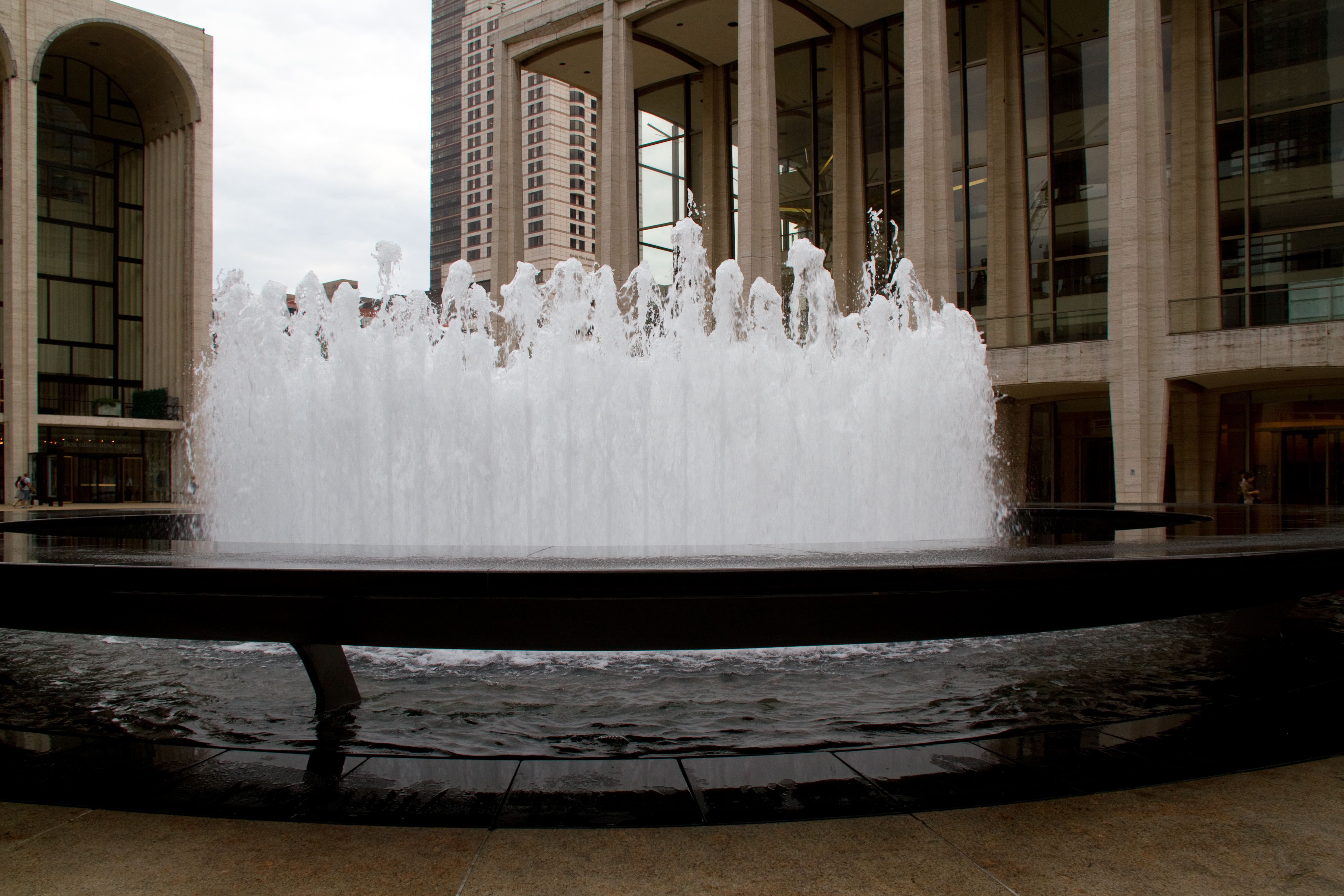 Fountain Lincoln Centre